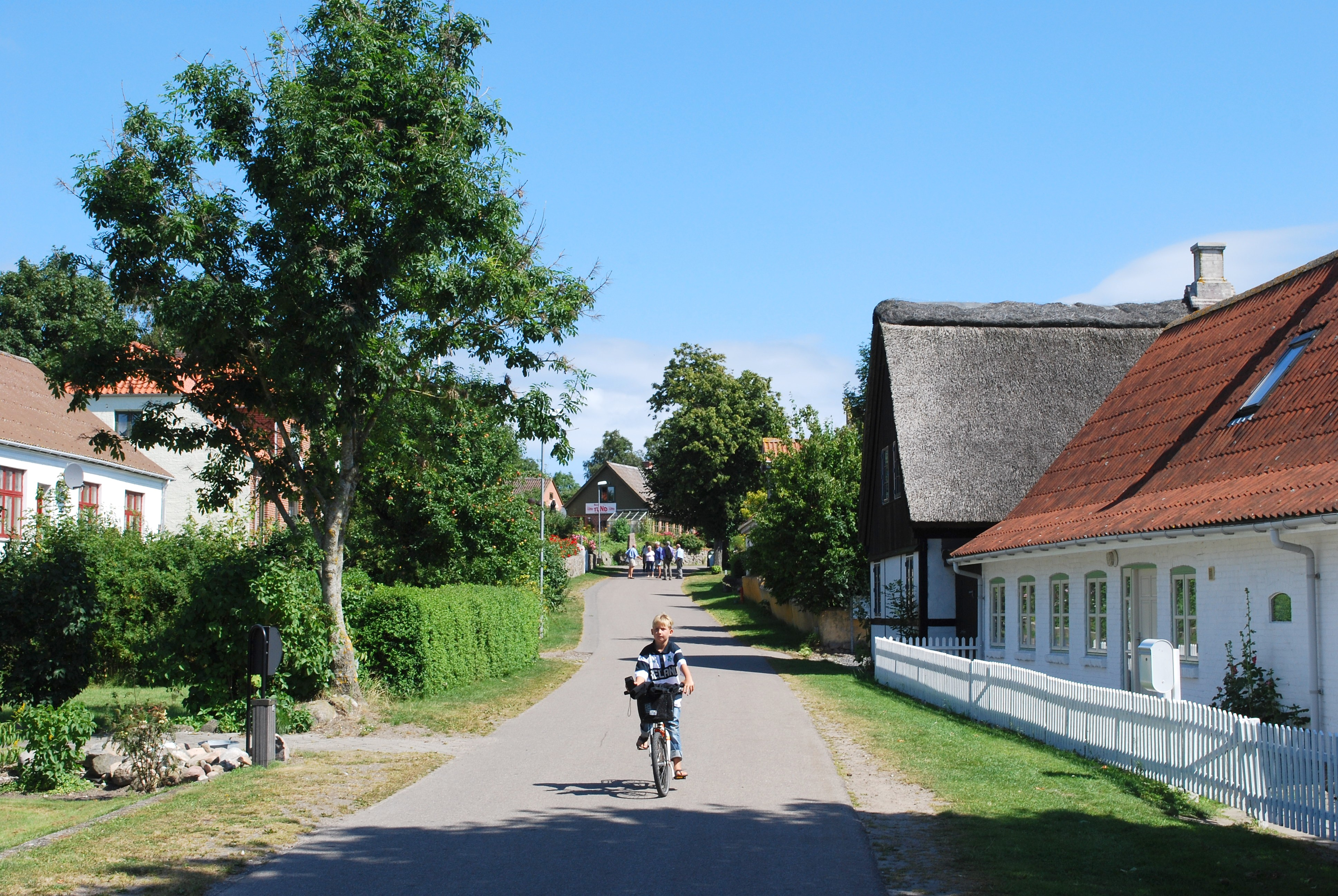 Tunø By, Tunø, Denmark